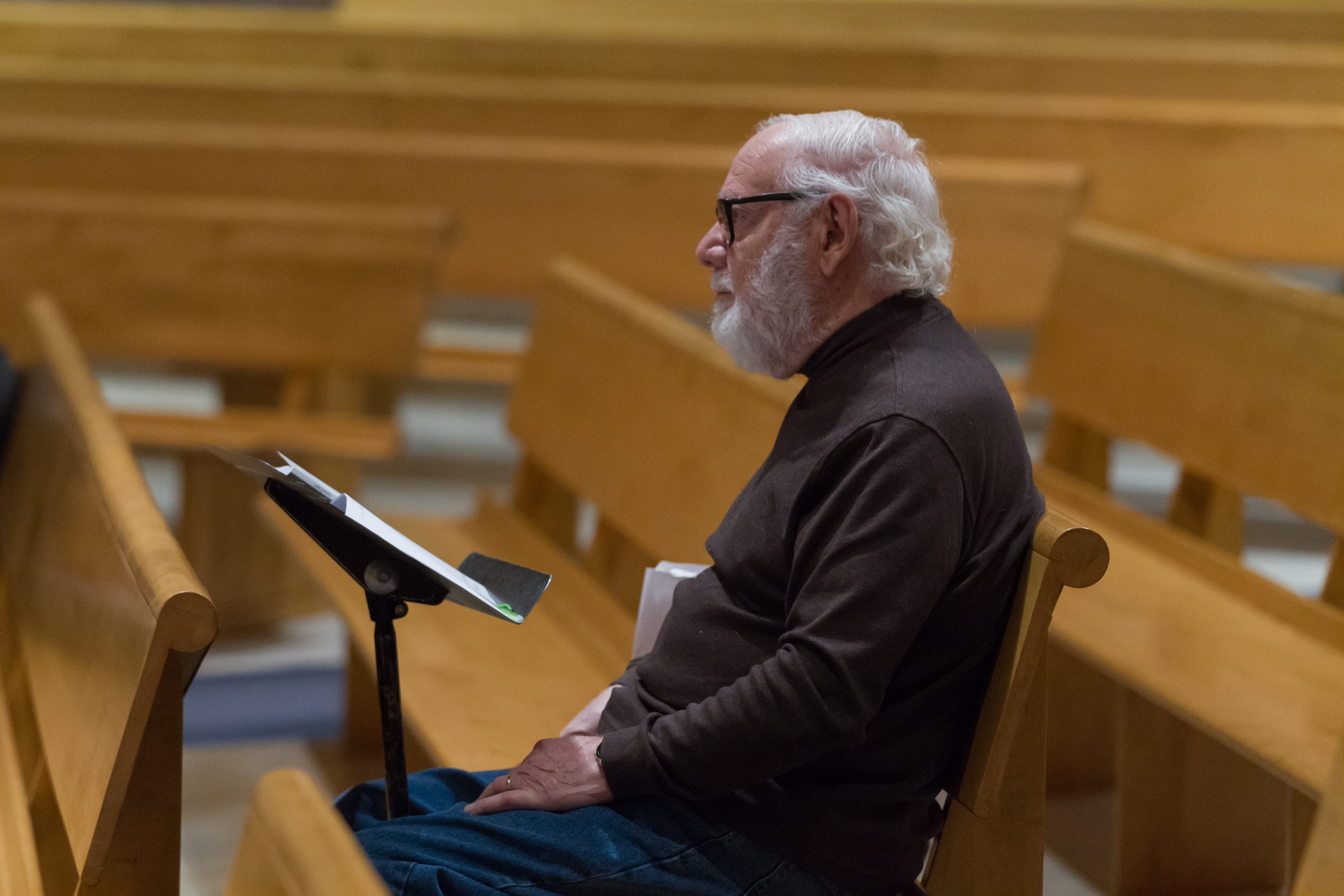 Dominick at rehearsal of his opera "The Boor" in 2017 performed with the Metropolitan Symphony Orchestra